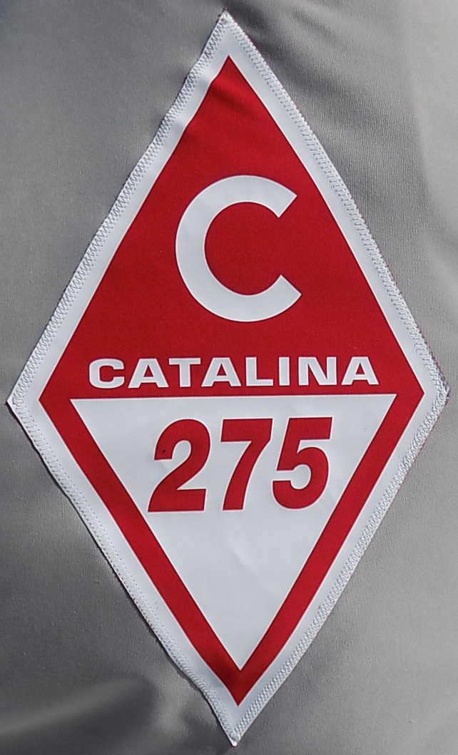 The sail badge for the Catalina 275 Sport sailboat.